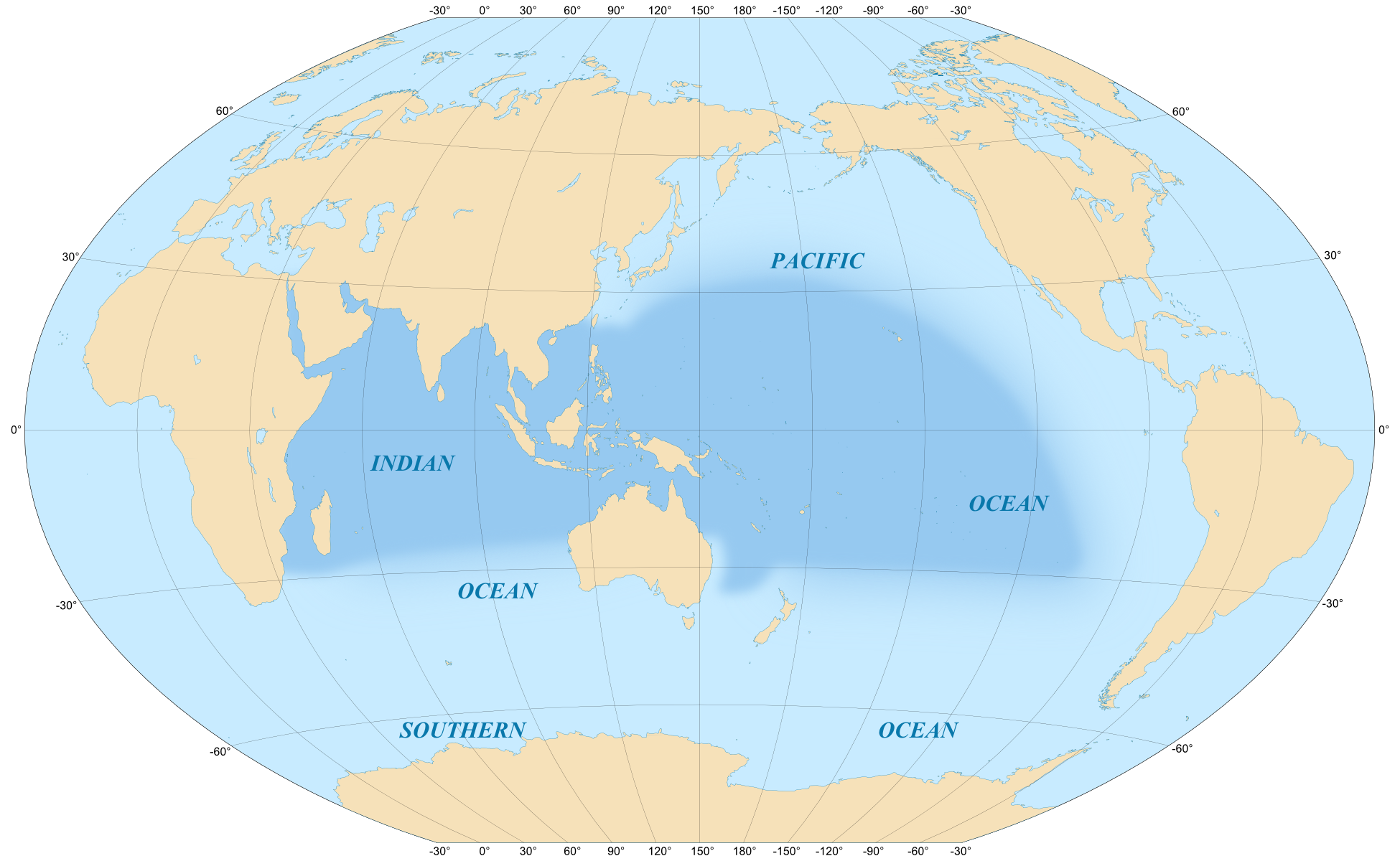 Map in English of the area covered by the Indo-Pacific biogeographic region. Scale : 1:5,000,000